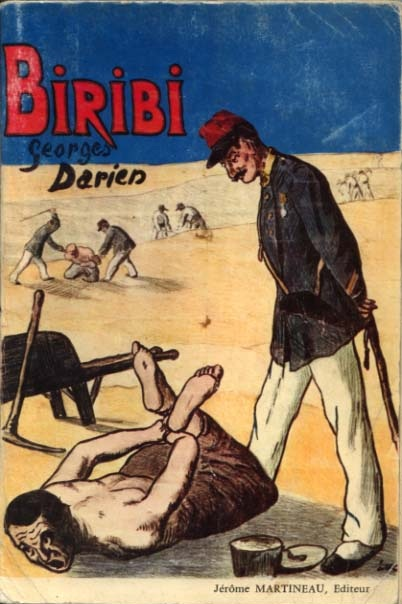 Cover of Georges Darien's novel Biribi (1890) created by Maximilien Luce (1858-1941)